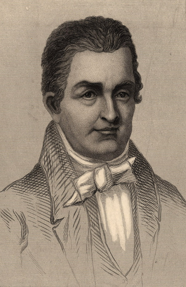 Engraved portrait of Oliver Evans (1755-1819) wearing an oblique white tie Caption for whole image: Eng.d by W.G.Jackman. OLIVER EVANS THE WATT OF AMERICA Some dirt and crinkles. Slight Moiré artifacts from scanning.